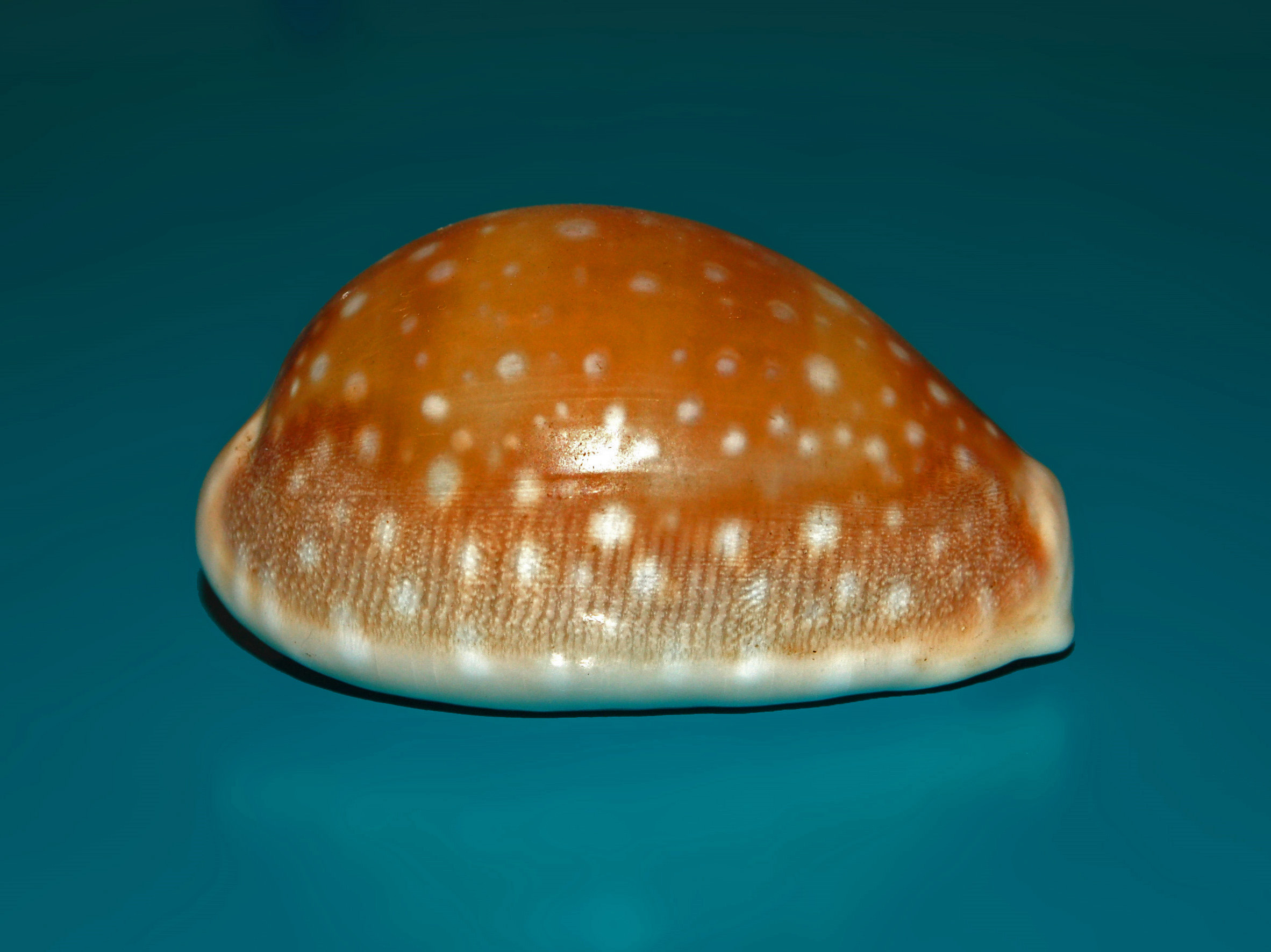 Lyncina vitellus